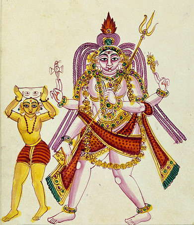 "The god Shiva in his form as Bichandi or Bhikshatana. The god is white-skinned and nude but for a red loin-cloth and garlands of jewels and skulls. He is four-armed and holds the trident and blood-bowl in two hands, and the drum and deer in the other two hands. His hair is crowned by a flame. A yellow-skinned figure carries a bowl with eyes, on his head, before the god."